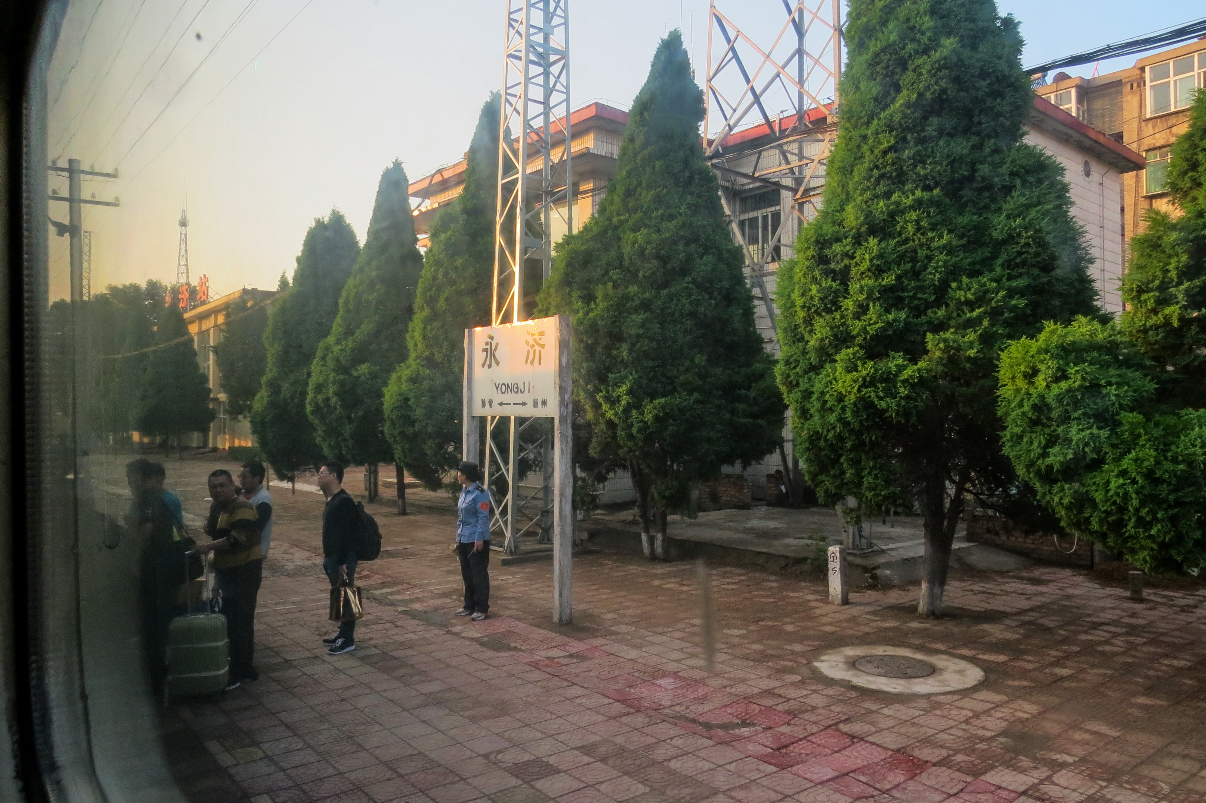 Don't expect the windows of TYR's trains to be clean.